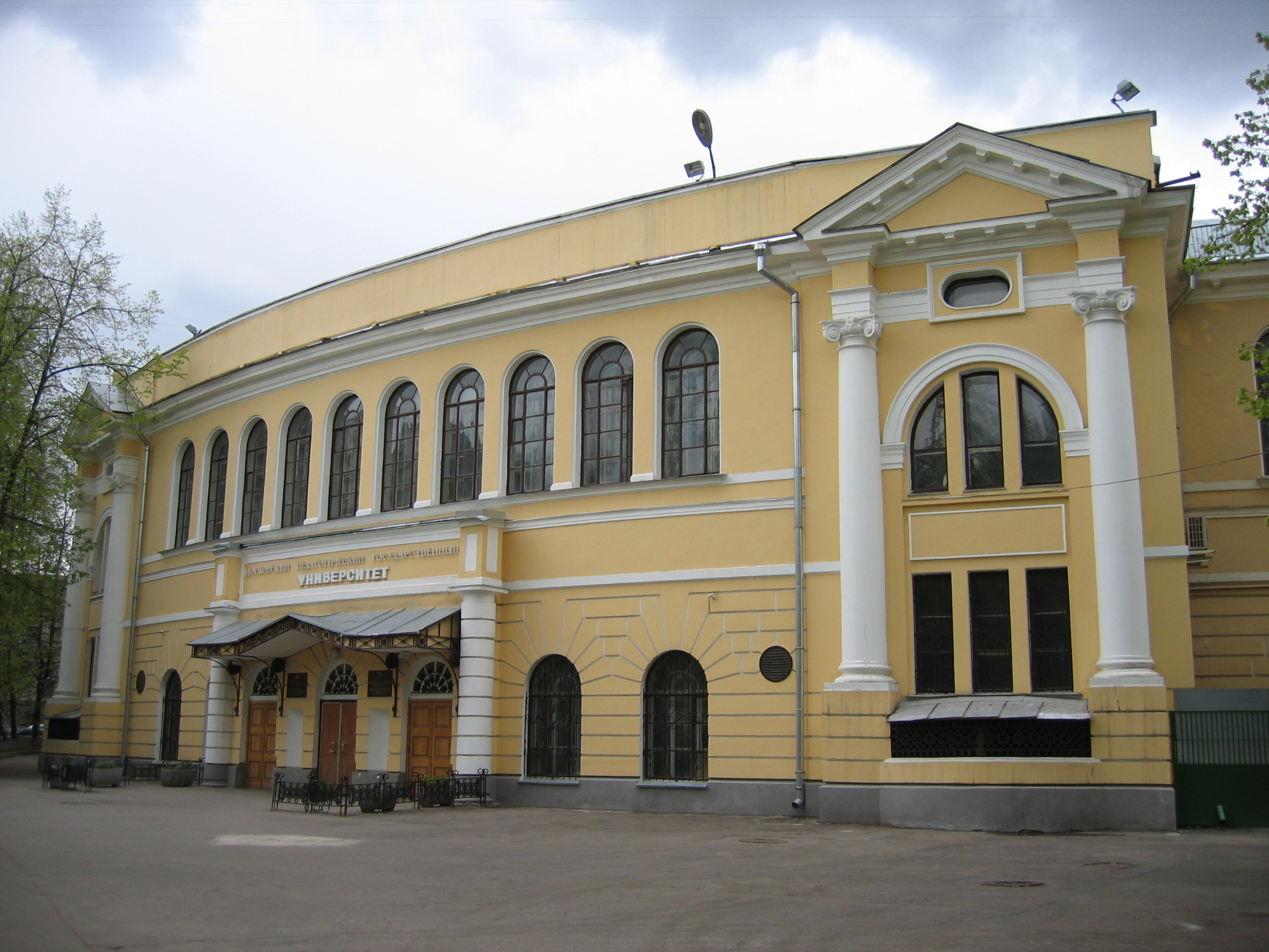 Moscow State Pedagogical University, built in 1910-1914. Original architect, Sergey Solovyov, died in 1912; the building was completed by Alexey Shchusev